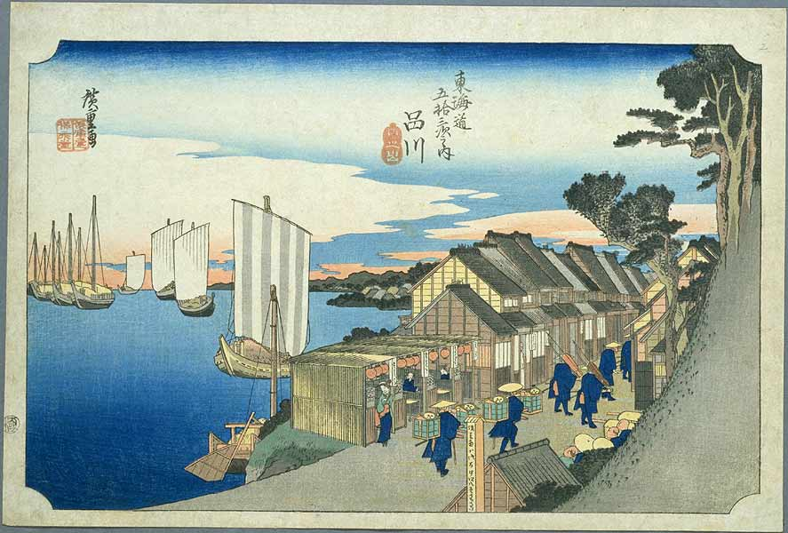 Shinagawa on the Tokaido, ukiyo-e prints by Hiroshige